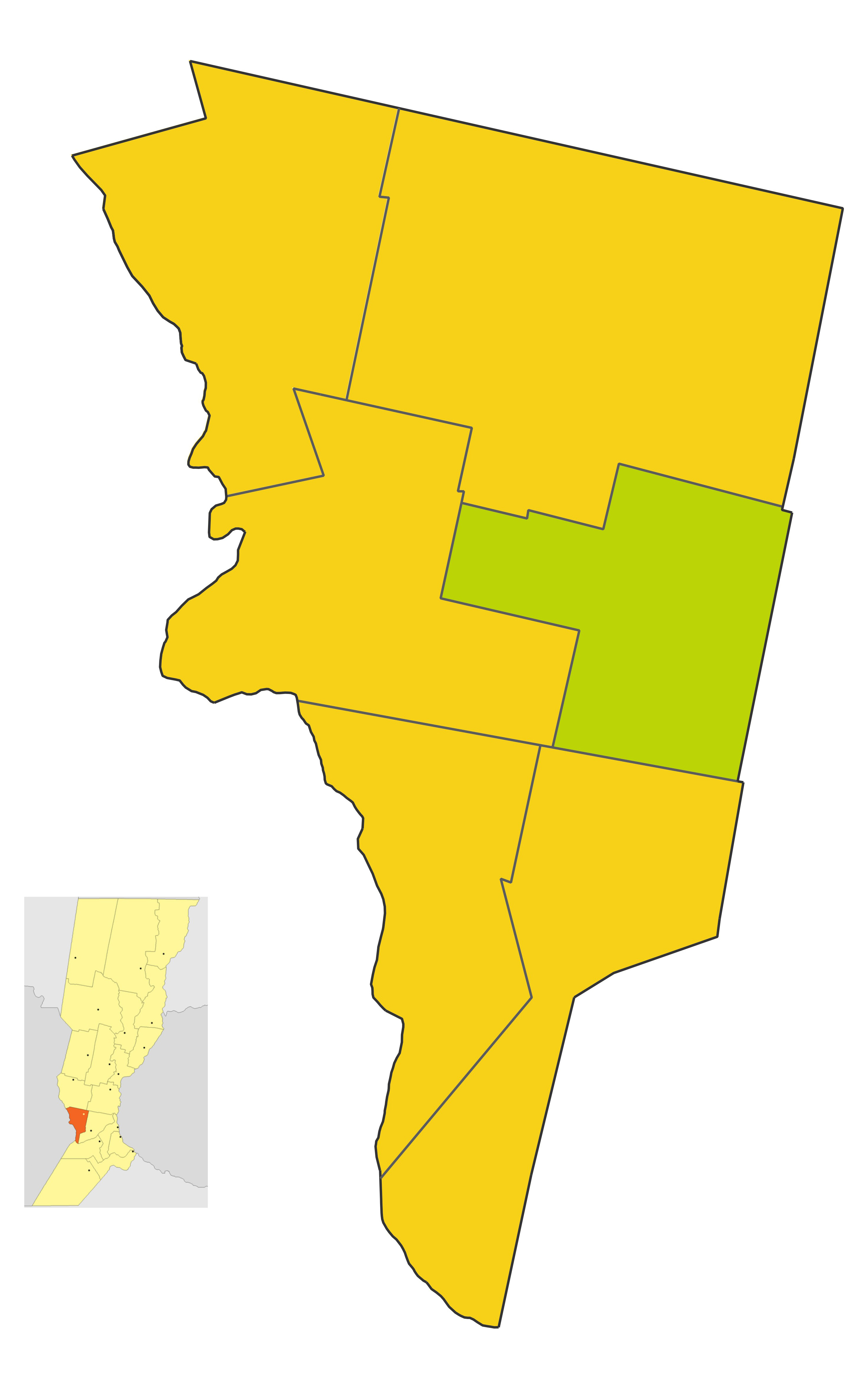 Map of the municipio Las Parejas in Belgrano department, Santa Fe province, Argentina